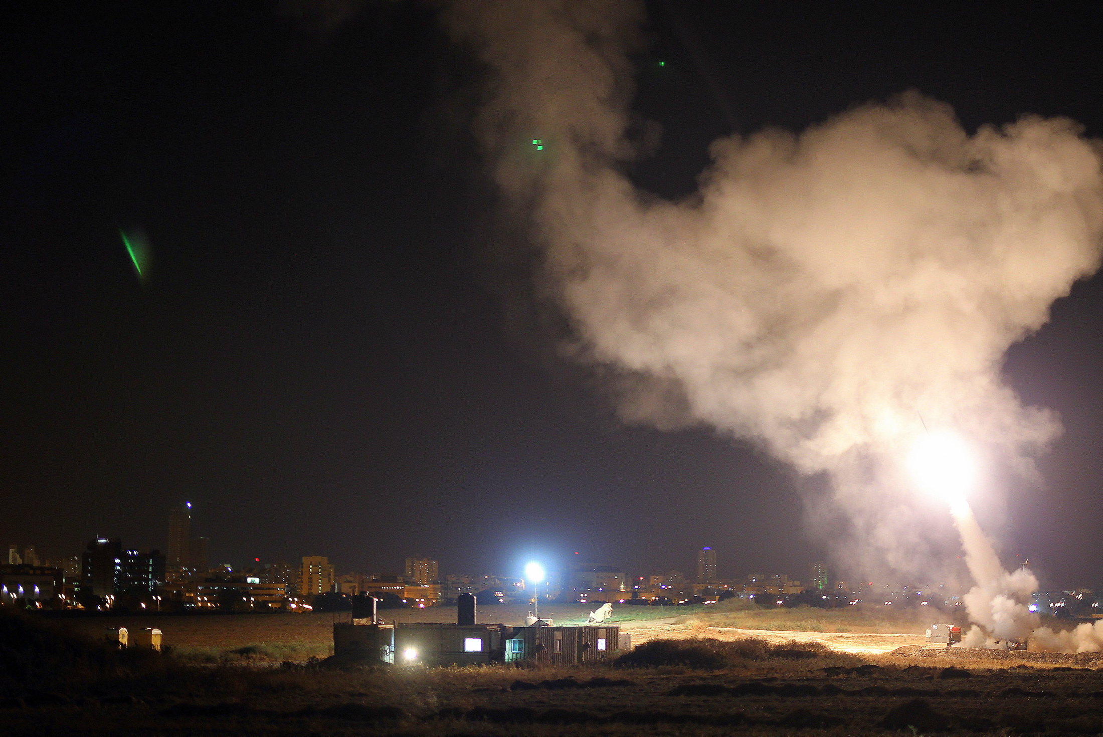 Iron Dome system intercepts Gaza rockets aimed at the city Ashdod.